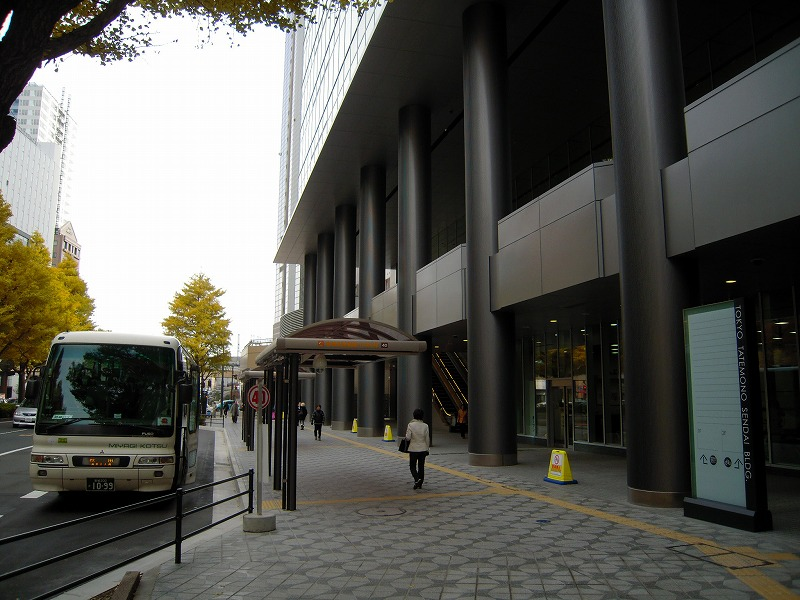 Miyakoh Sendai Highwaybus center (Hirosedori ave.,Sendai city,Miyagi,Japan)